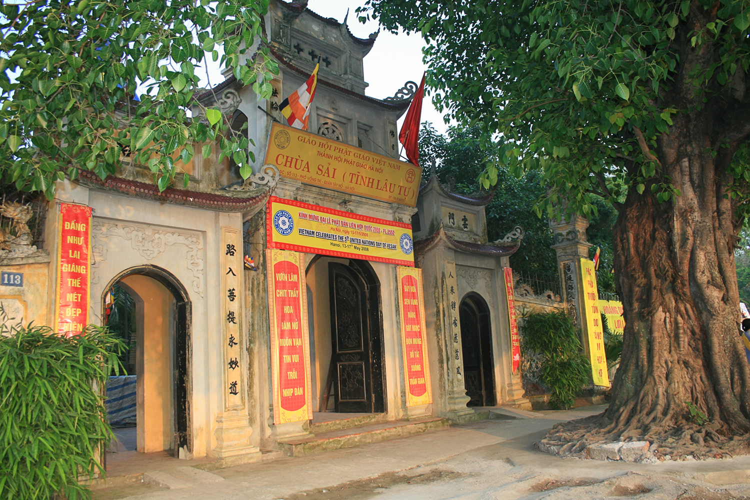 Sãi (Tĩnh Lâu Tự) Buddhist Temple, Tây Hồ District, Hanoi, Vietnam.